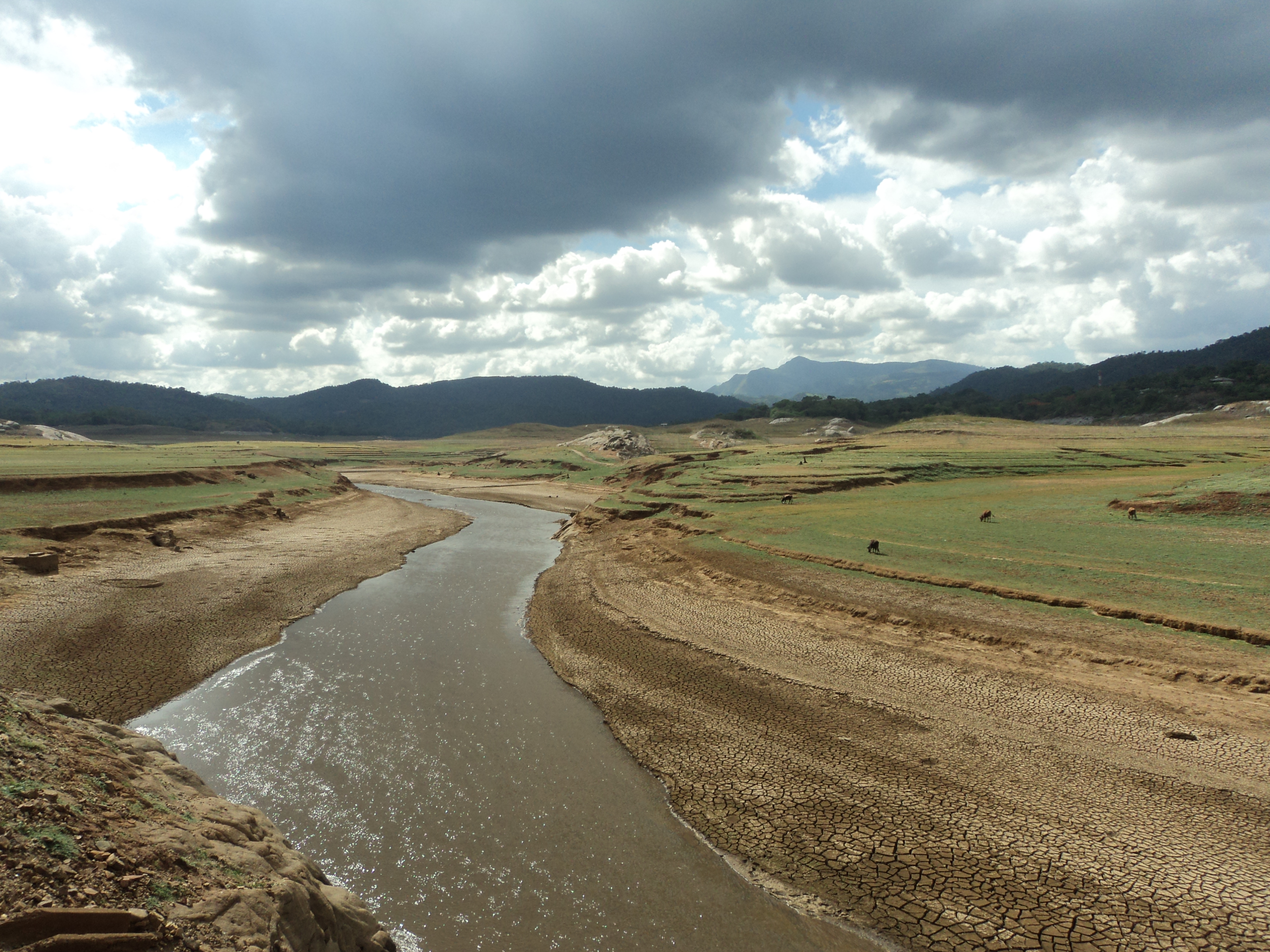 When building the Victoria Dam in Sri Lanka the Teldeniya city was submerged. This is the sumbmerged old Teldeniya city seen during a drought period the reservior water level abrupty dropped in 2012